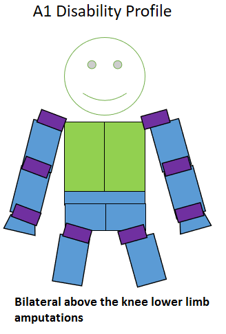 Amputee sport related classification illustration using the ISOD/IWAS classification system.